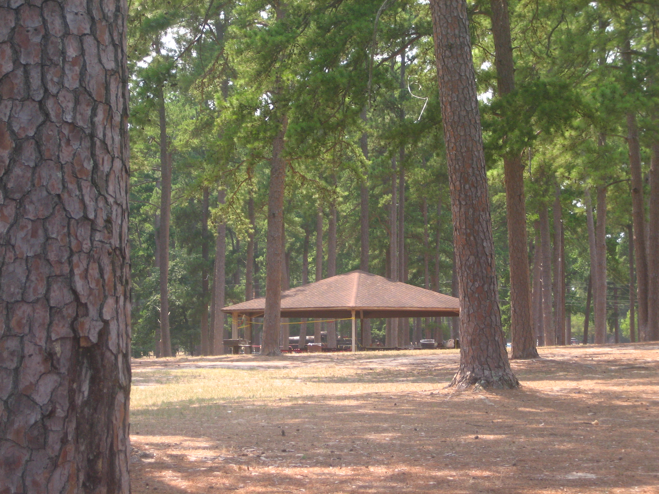 I took photo on Aug. 3, 2008.Billy Hathorn (talk) 21:54, 14 August 2008 (UTC)